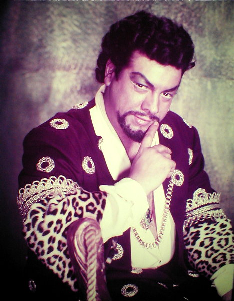 Image of Mario Lanza used for promotional purposes for the film Serenade.